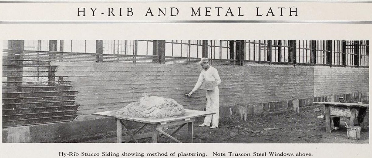 Stucco siding with Hy-Rib metal lath siding